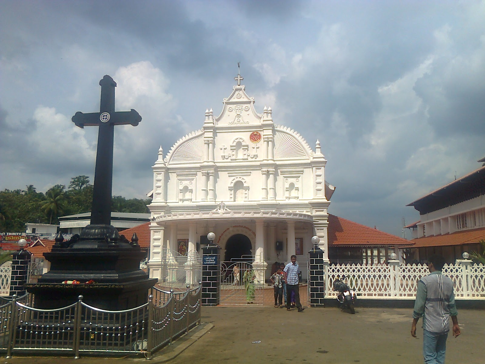 മാർത്തൊമ്മാ ചെറിയ പള്ളി,കൊതമംഗലം